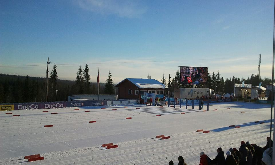 Ski stadium of Vangsåsen in Hamar, Norway.